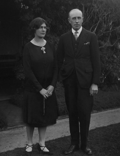 Lady Joan Lindsay and Sir Daryl Lindsay, 1925, Victoria